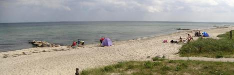 Picture of the beach "Hasmark Strand" i Denmark. It is location at North Fyn.